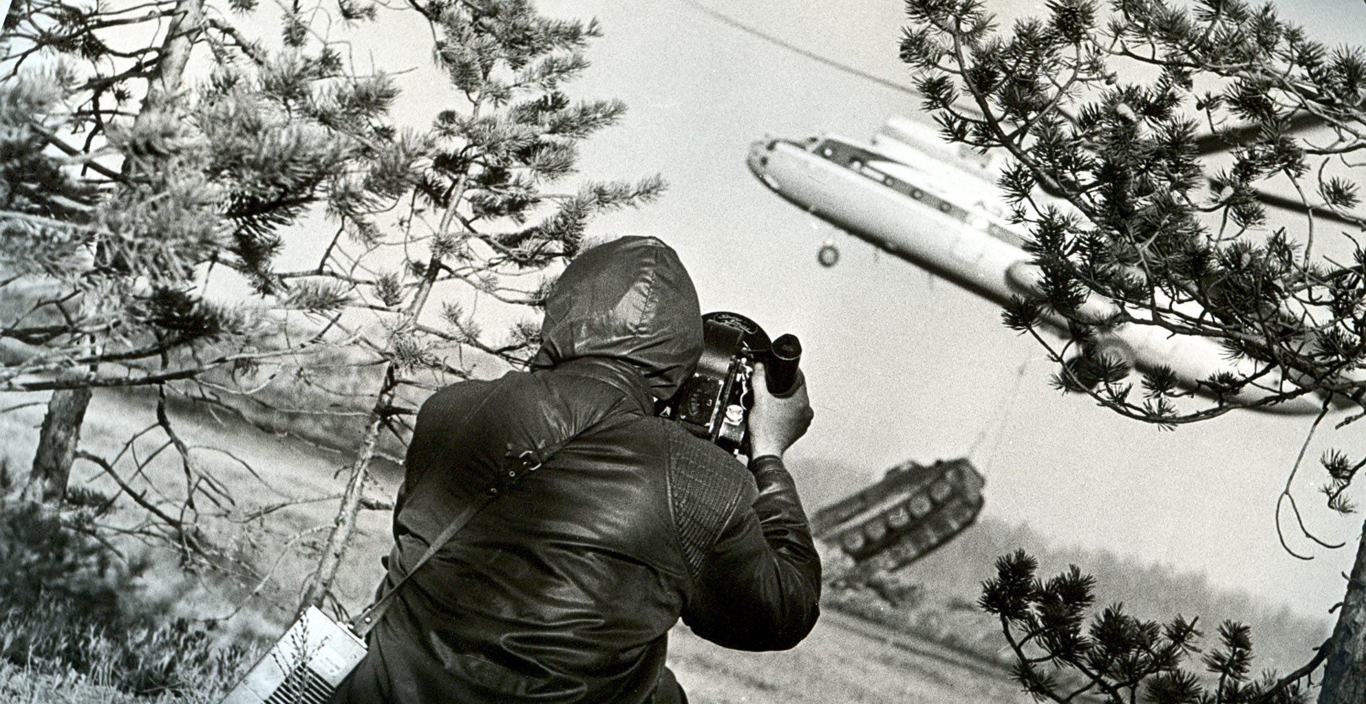 Vitaly Vitalievich Anokhin, cameraman. Tumen's region